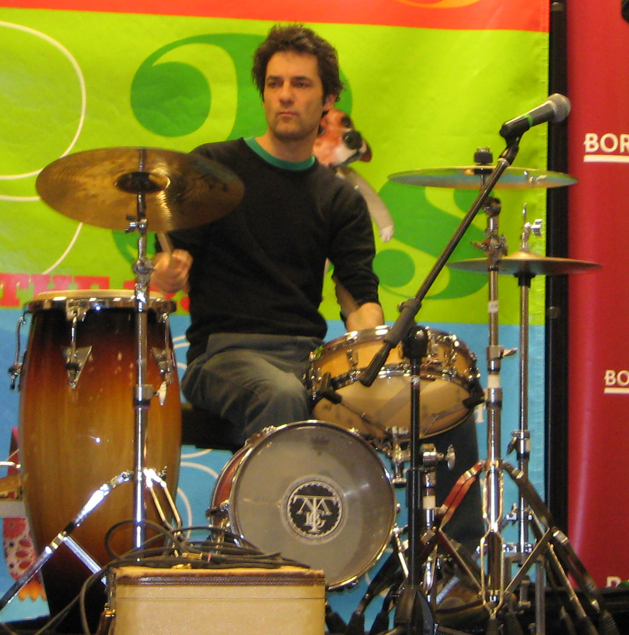 Borders at 10 Columbus Circle, in New York City. Marty Beller performing in a Borders store. Cropped from a photo I took.